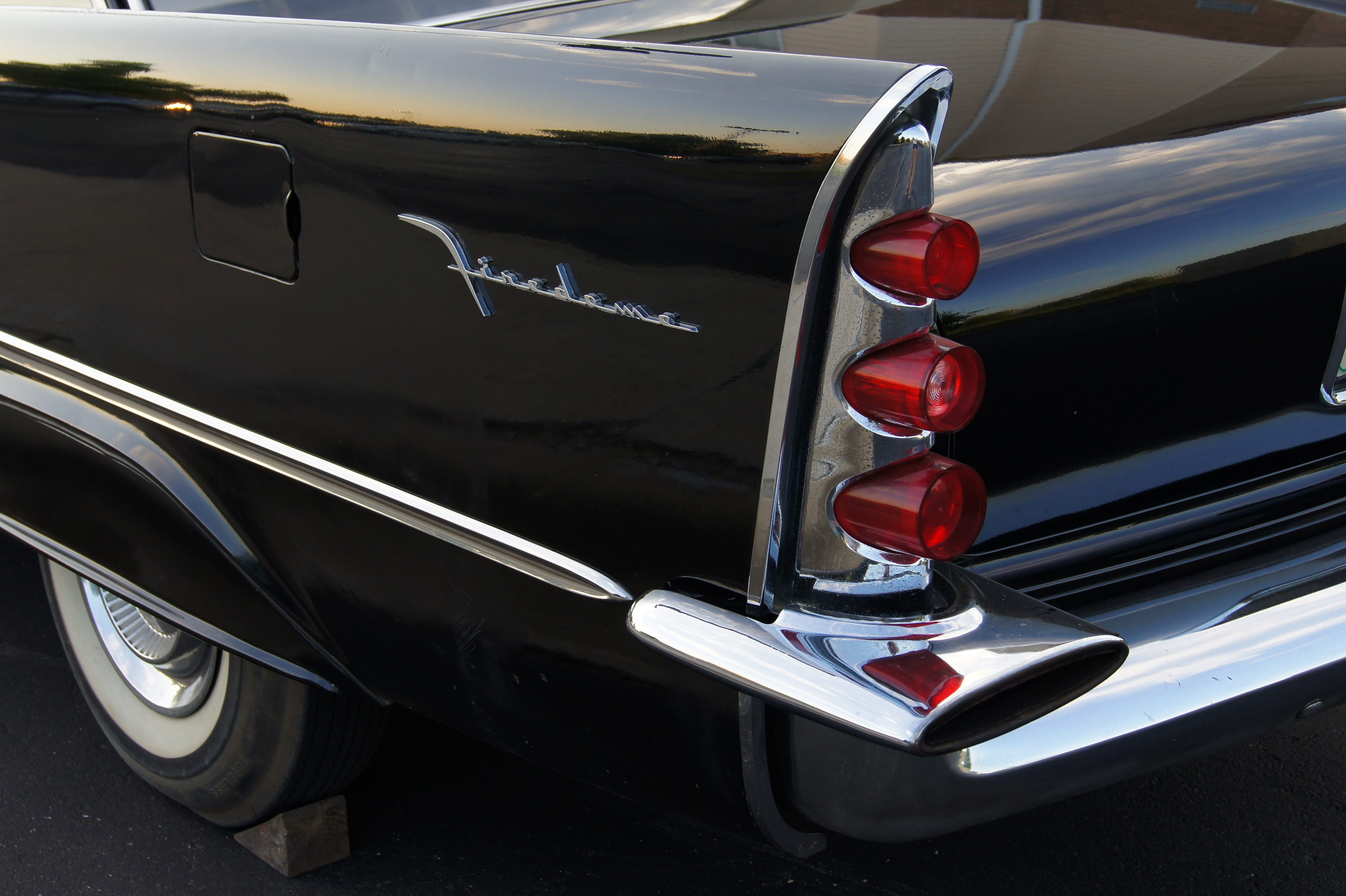 1st Combined Convention 28th Annual National DeSoto Club Convention & 44th Annual Walter P.Chrysler Club Convention July 17 - 21, 2013 Lake Elmo, Minnesota Click link below for more car pictures